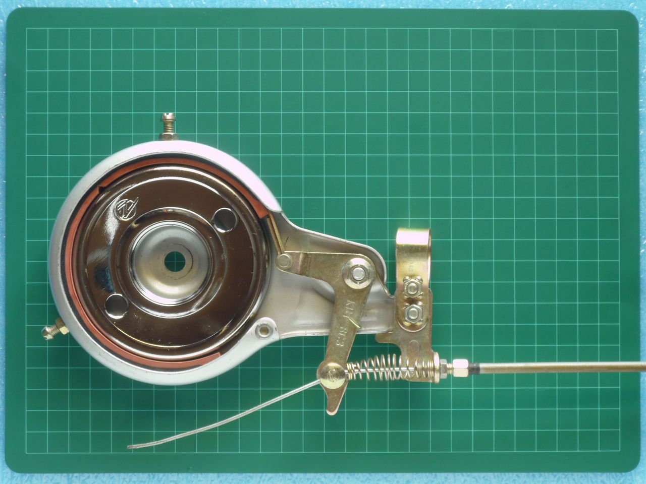 Band-brake (for bicycle rear wheel)